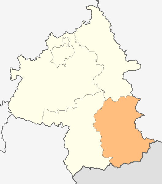 Map of Bolyarovo municipality, Yambol Province